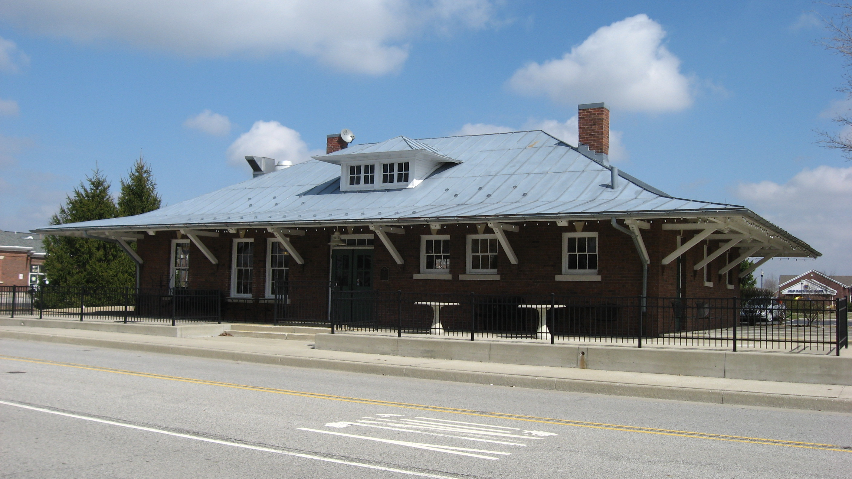 Front of the Fort Harrison Terminal Station, located on Lawton Loop at Fort Benjamin Harrison in Indianapolis, Indiana, United States. Constructed as a train station, it was later used as a post office, and today it has been converted into a Mexican restaurant. Built in 1908, it is listed on the National Register of Historic Places, and it is part of a Register-listed historic district, the Fort Benjamin Harrison Historic District.